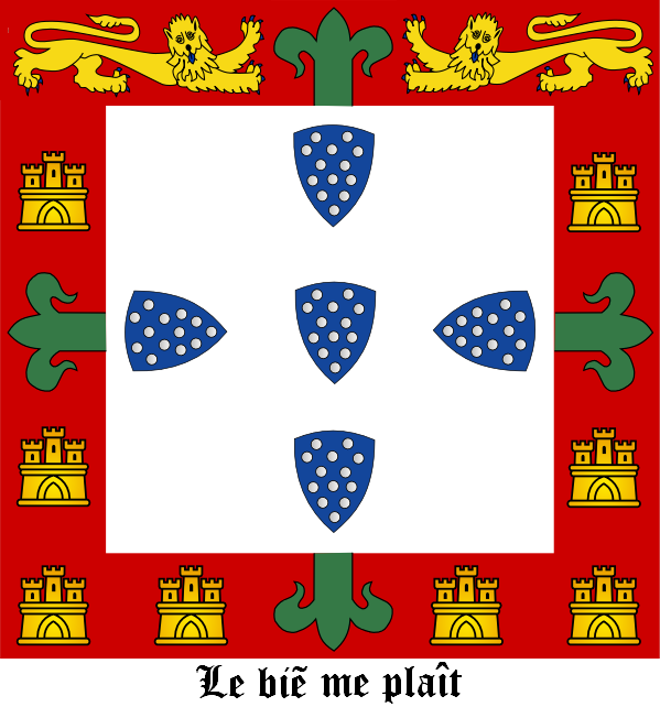 Banner of Arms of Portuguese Prince Ferdinand of Aviz, the Saint Prince